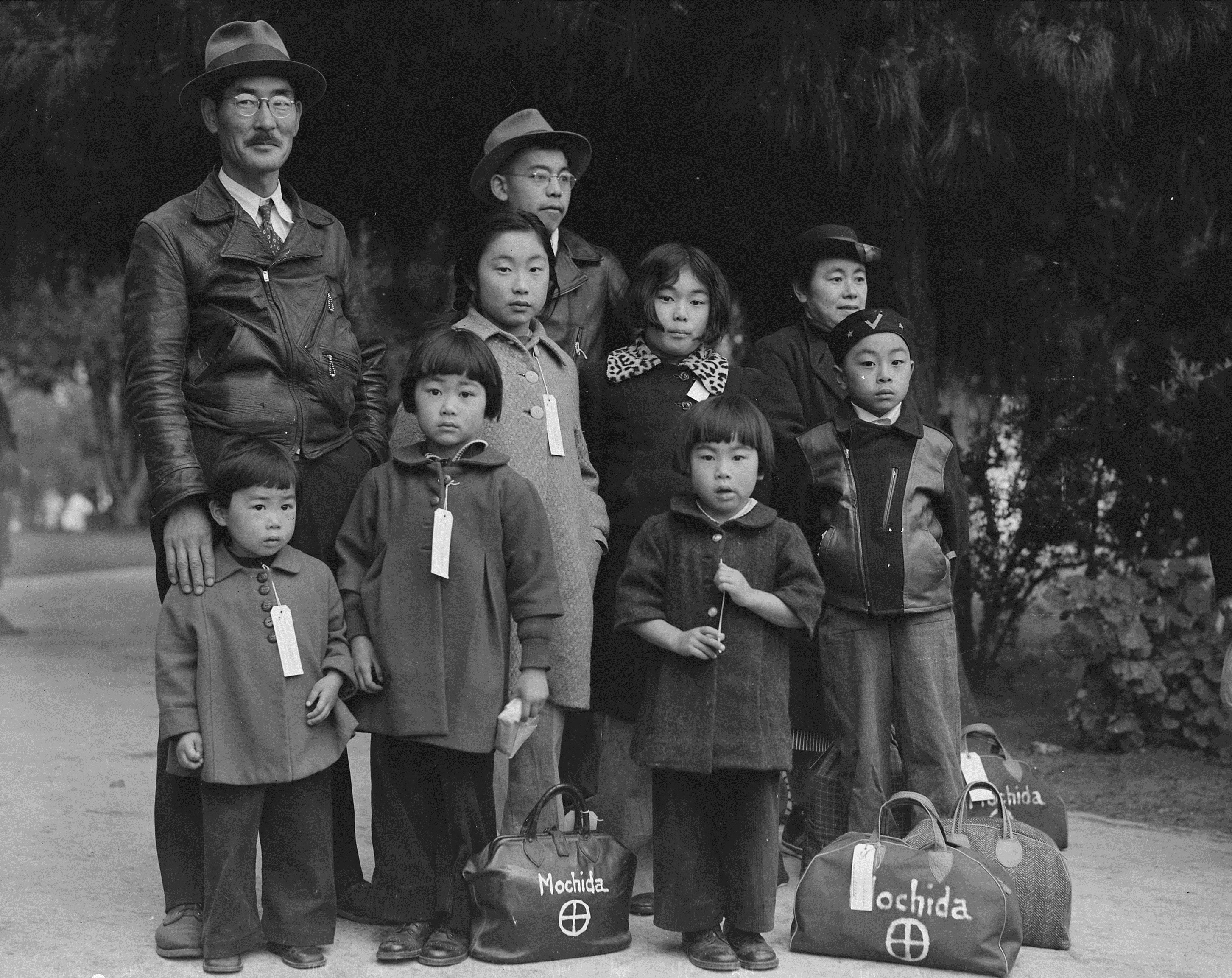 Scope and content: Original caption: Hayward, California. Members of the Mochida family awaiting evacuation bus. Identification tags are used to aid in keeping the family unit intact during all phases of evacuation. Mochida operated a nursery and five greenhouses on a two-acre site in Eden Township. He raised snapdragons and sweet peas. Evacuees of Japanese ancestry will be housed in War Relocation Authority centers for the duration.